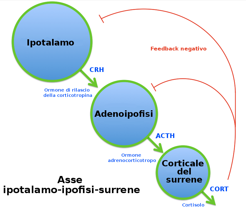 Basic hypothalamic–pituitary–adrenal axis summary (corticotropin-releasing hormone=CRH, adrenocorticotropic hormone=ACTH). Original work from Jessica Malisch and Theodore Garland Feb. 25, 2004